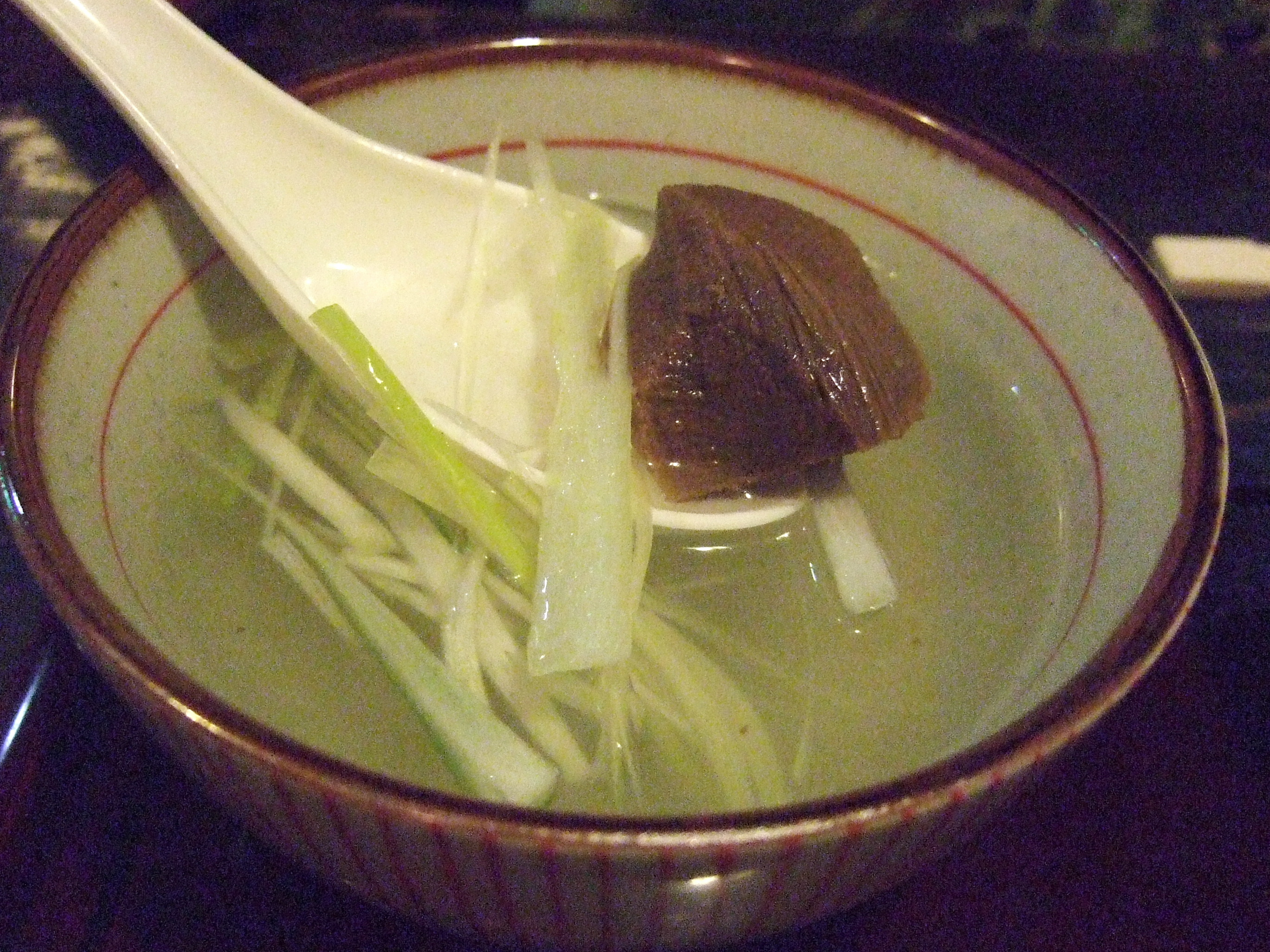 Oxtail soup served with grilled Gyutan, Sendai, Miyagi Prefecture